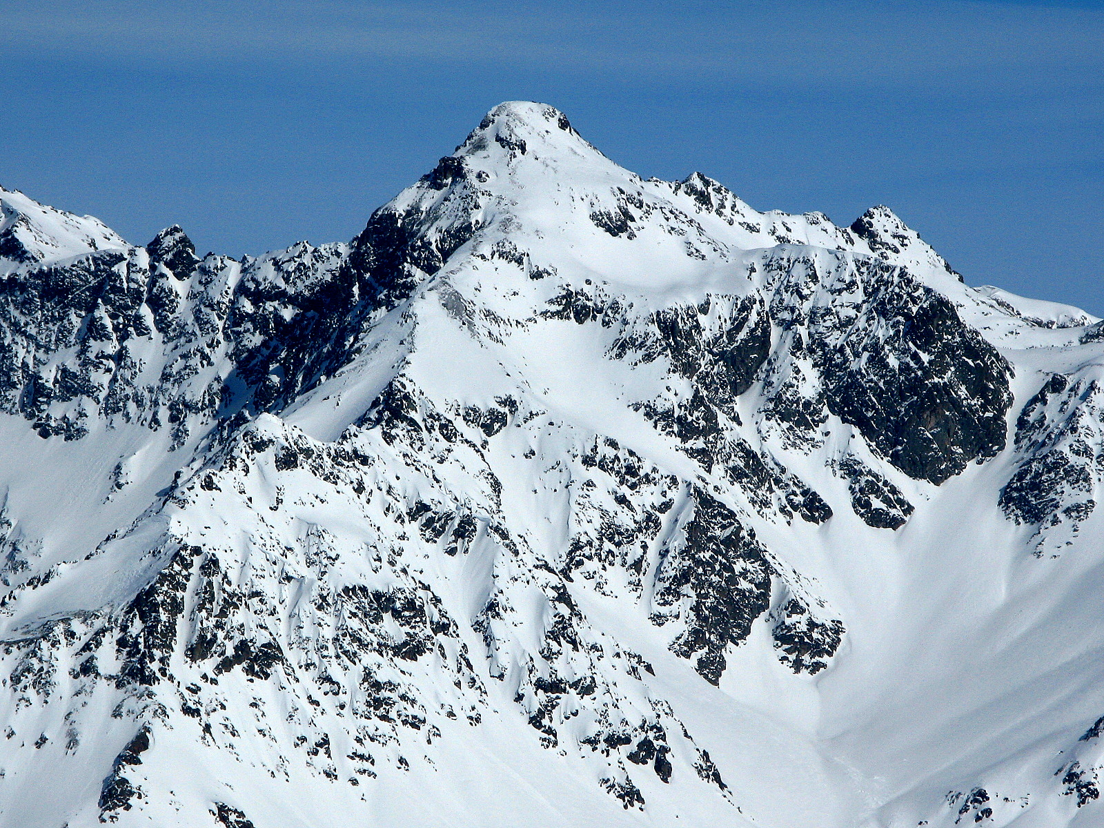 Piz Calderas, Sur, Bever, Grisons, Switzerland